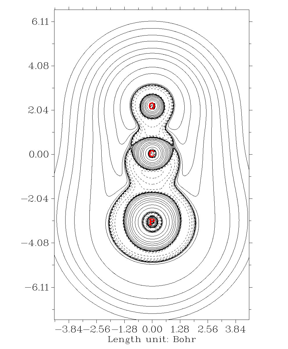 A contour plot depict the laplacian electron density of the PCO anion.